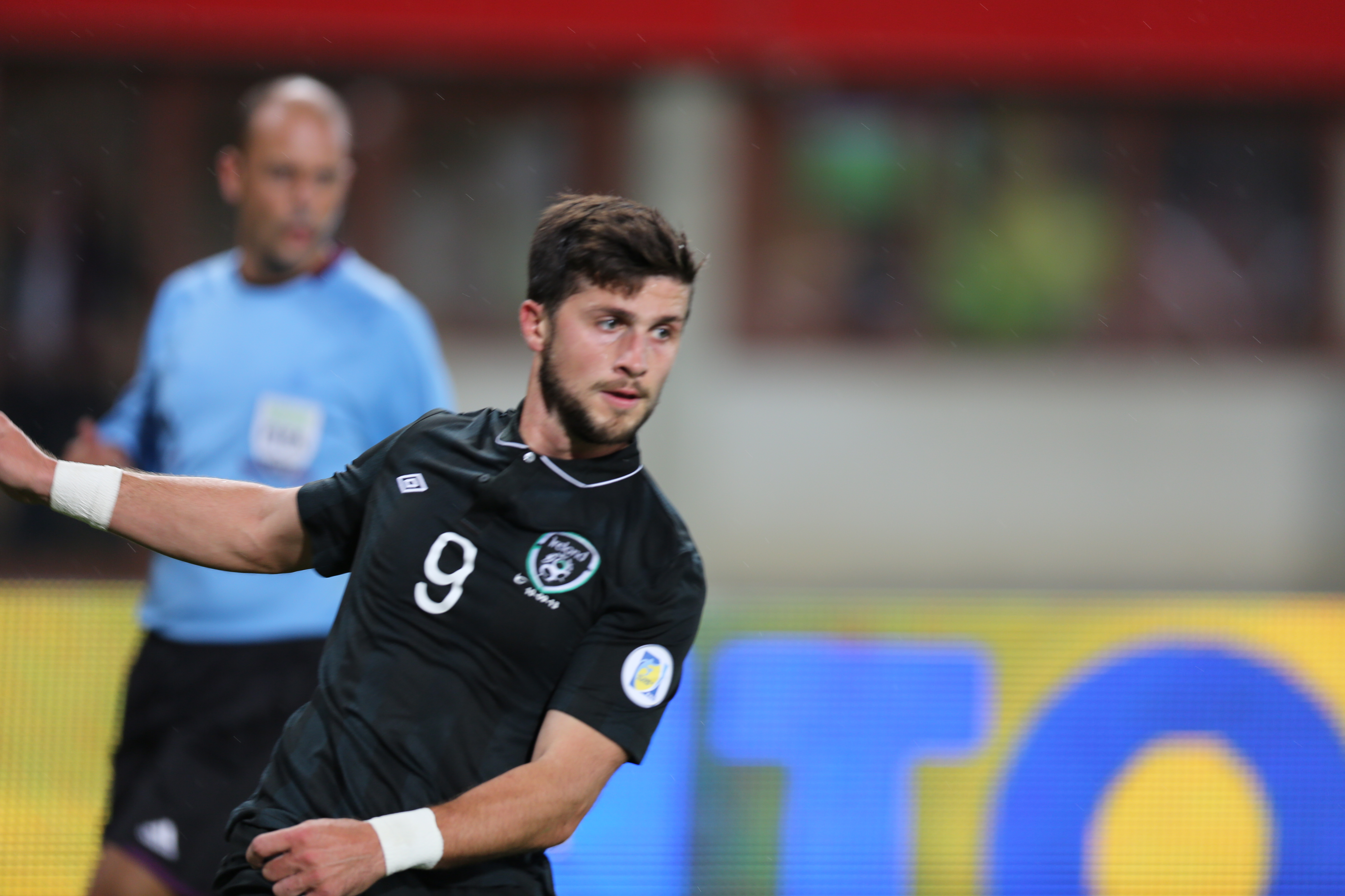 2014 FIFA World Cup qualification (UEFA), Group C: Republic of Ireland national football team at 10. September 2013 before the match against the Austria national football team (0:1) in the Ernst-Happel-Stadion in Vienna. Here: Shane Long, irish striker The making of this work was supported by Wikimedia Austria. For other files made with the support of Wikimedia Austria, please see the category Supported by Wikimedia Österreich.